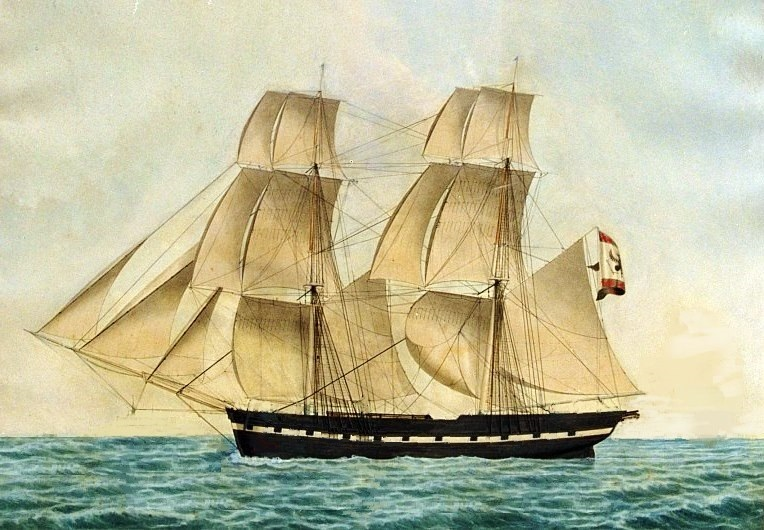 Brig "Neue See-Post"